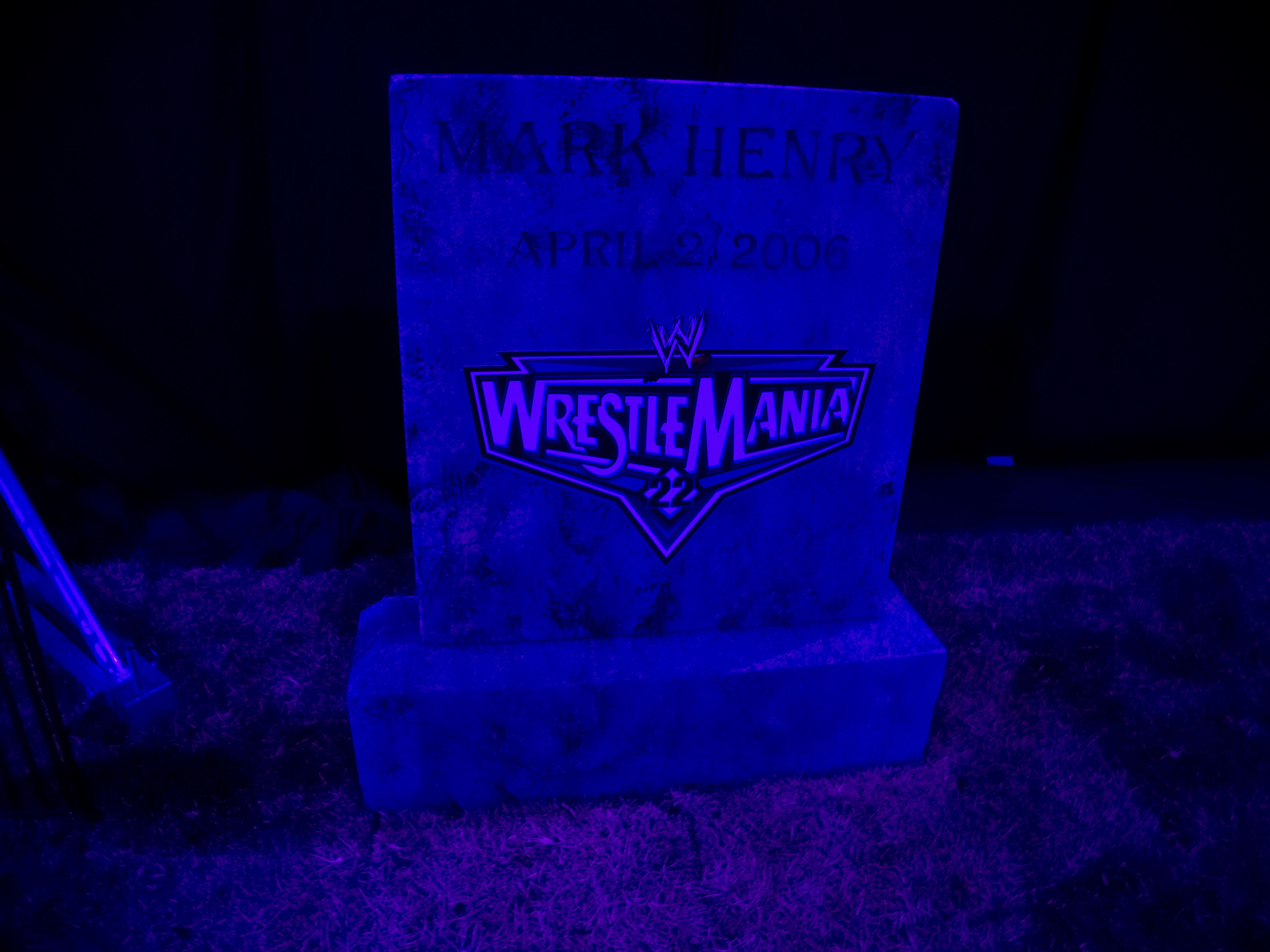 The Undertaker's Graveyard @ Axxess